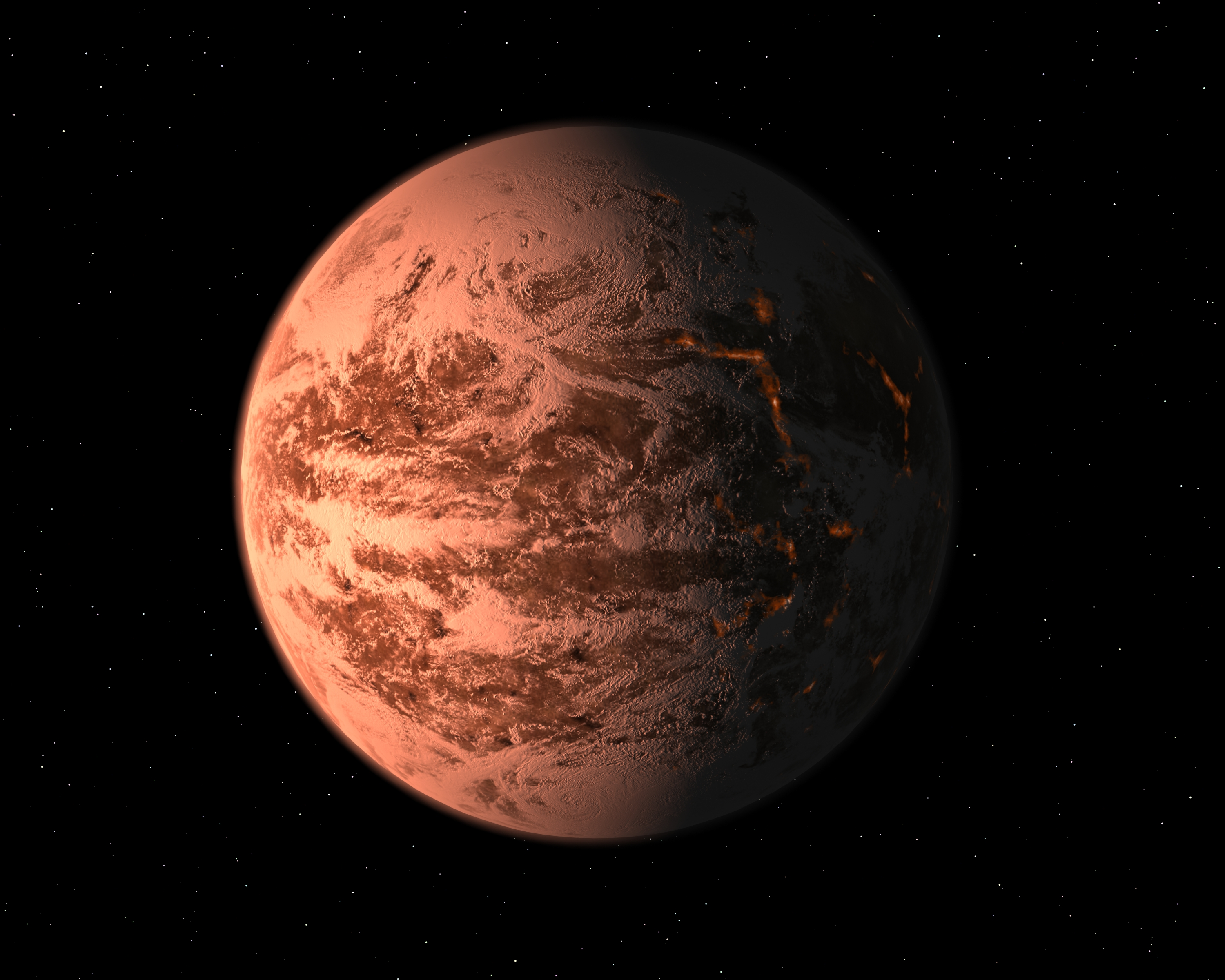 Artist's conception of Gliese 876 d. The planet's mass is about 7.5 times the mass of Earth, halfway between the mass of Earth and that of Uranus.